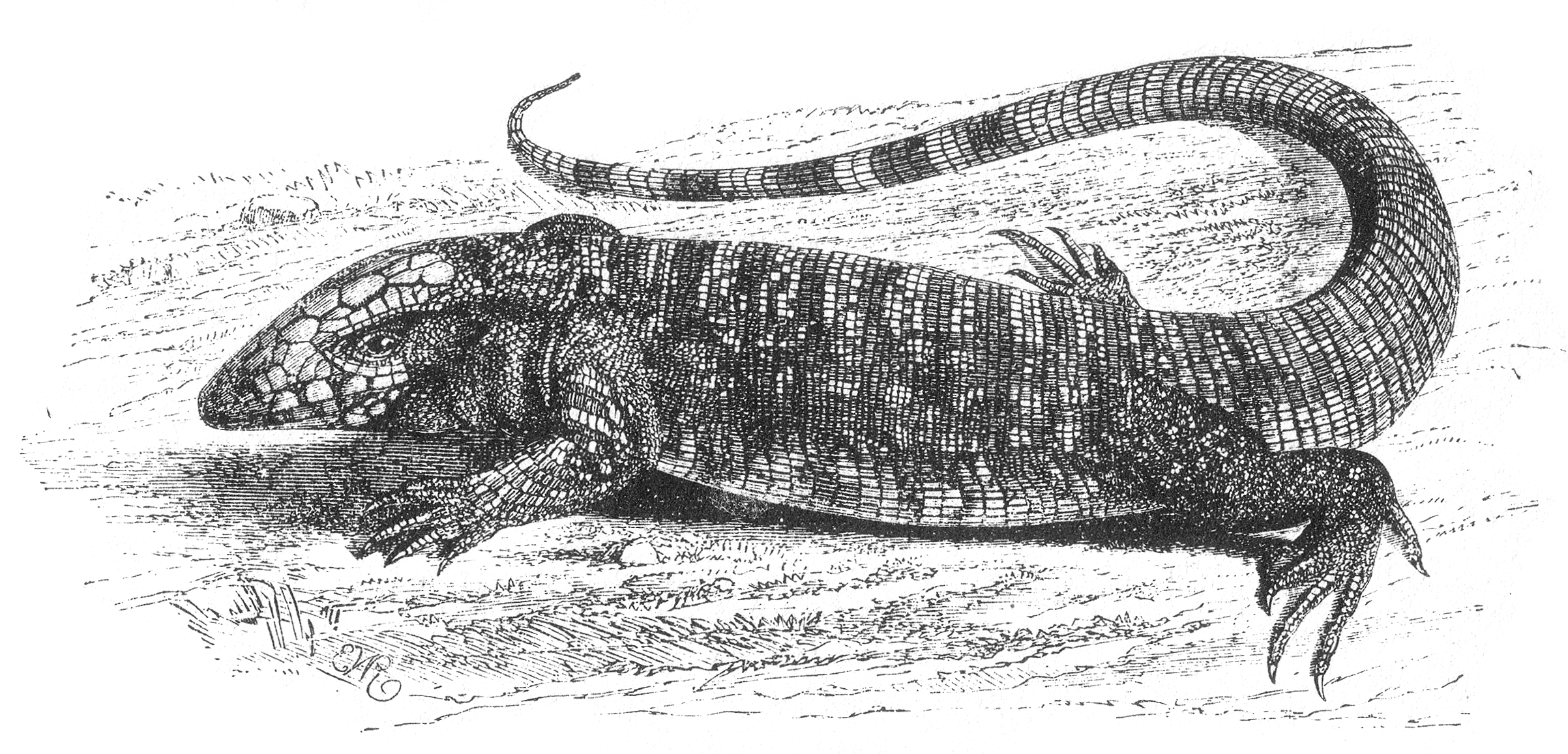 Gold Tegu